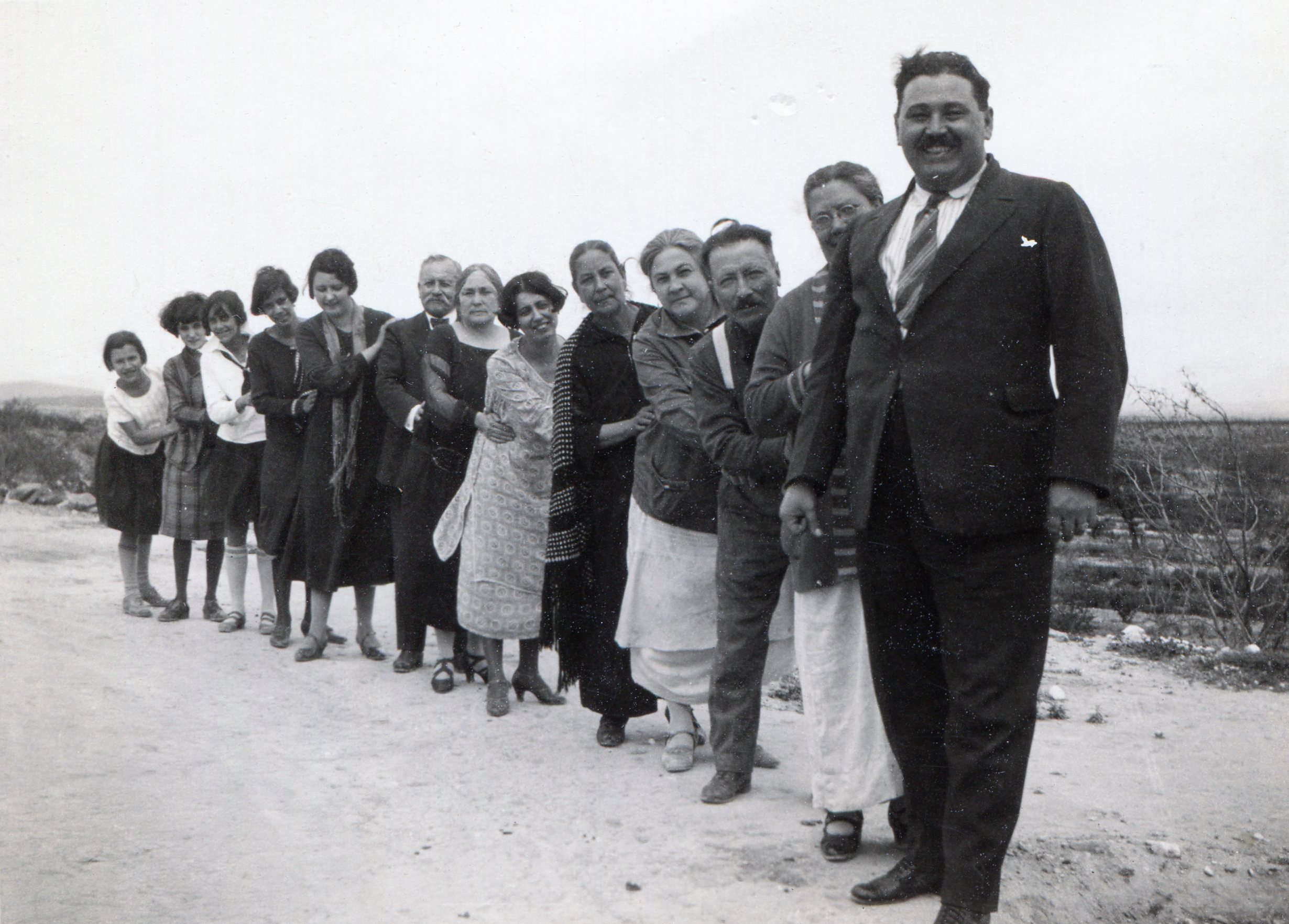 Un paseo dominical en Lomas de Lourdes, Saltillo.